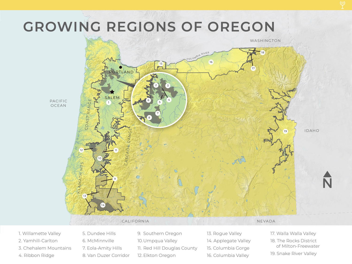 Growing regions of Oregon - American Viticultural Areas